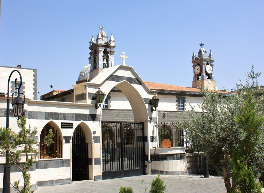 Our Lady of Dormition Melkite Greek Catholic Patriarchal Cathedral, Damascus. The Melkite Greek Catholic Church is an Eastern Catholic Church in full union with the Roman Catholic Church, after an 18th century split from the Greek Orthodox Church of Antioch